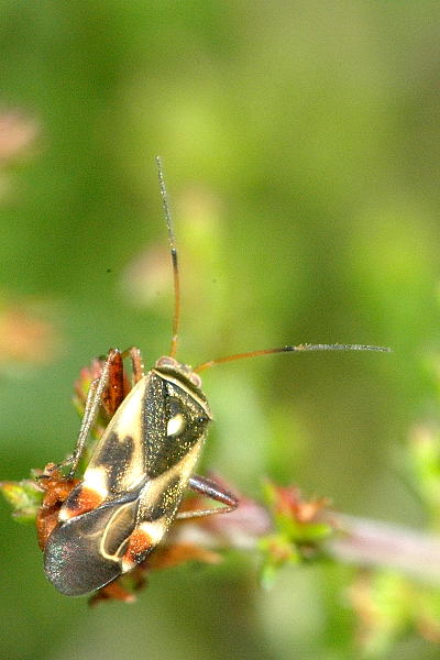 Picture taken in Commanster, Belgian High Ardennes . Species: Polymerus unifasciatus